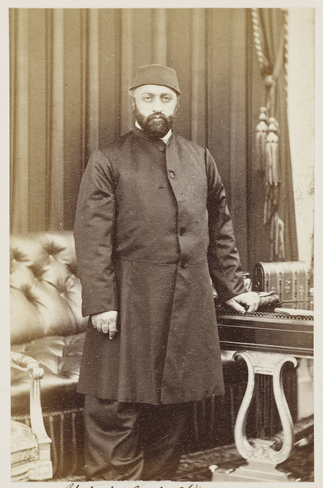 32nd Sultan of the Ottoman Empire and 111. caliph of Islam ; Abdullaziz I. (1830-1876)